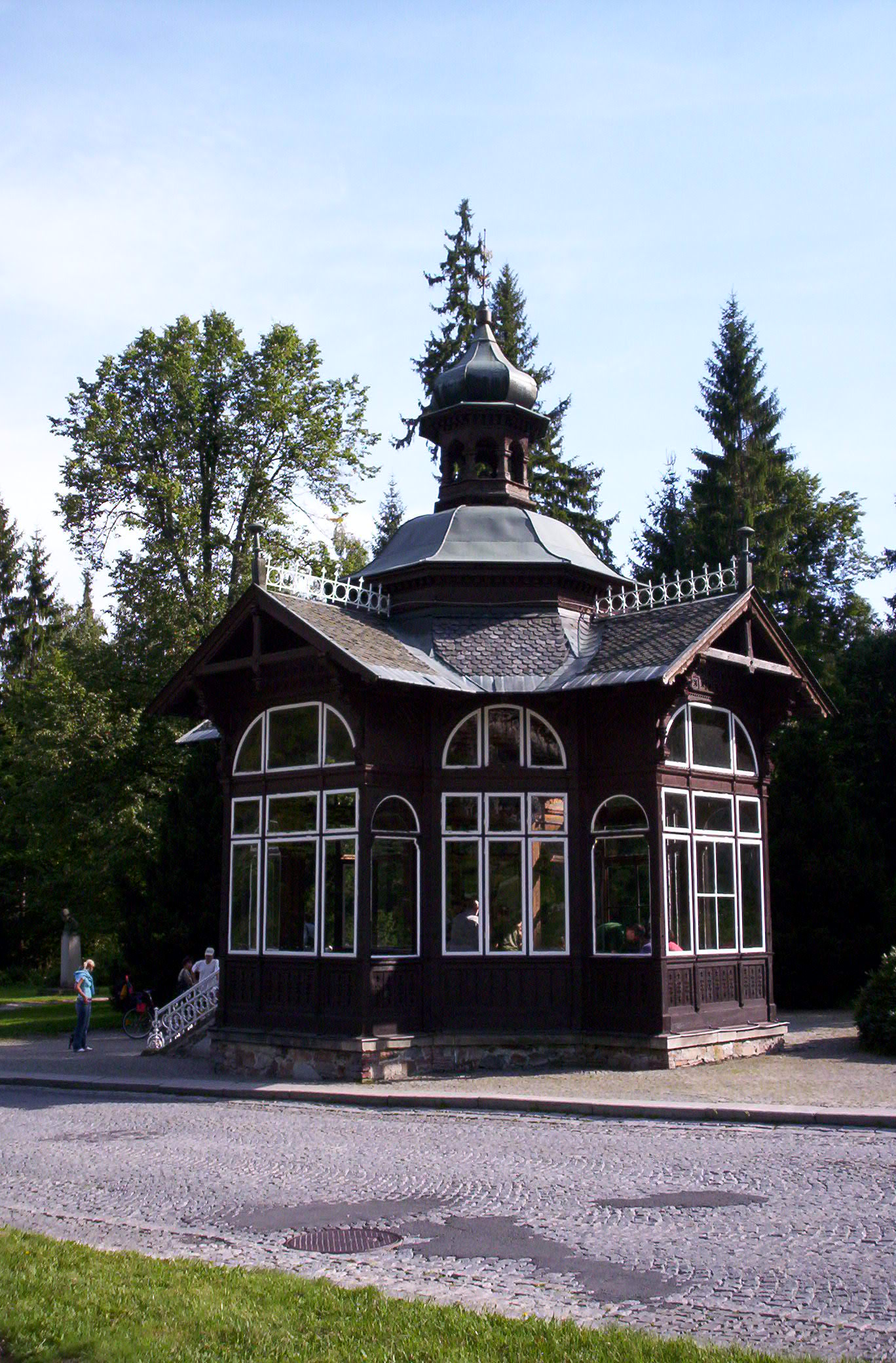 Drink pavilon in Karlova Studánka